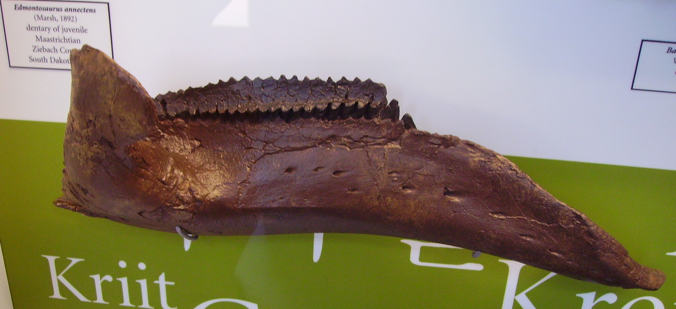 Photographer: User:Ballista